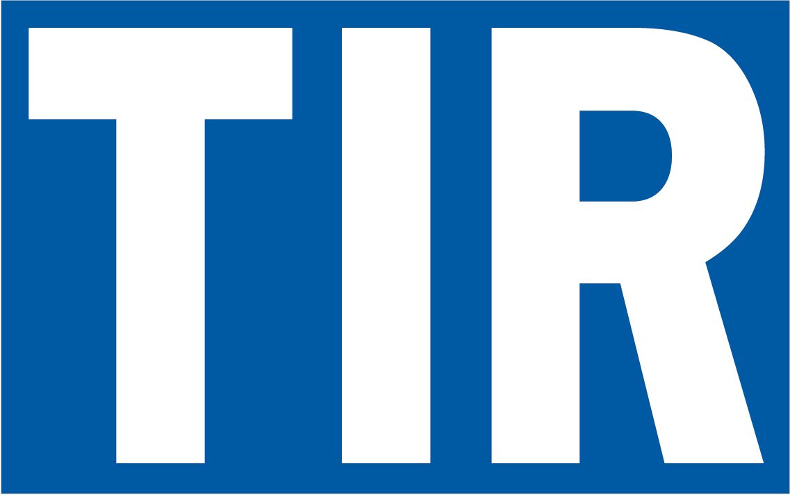 TIR plate